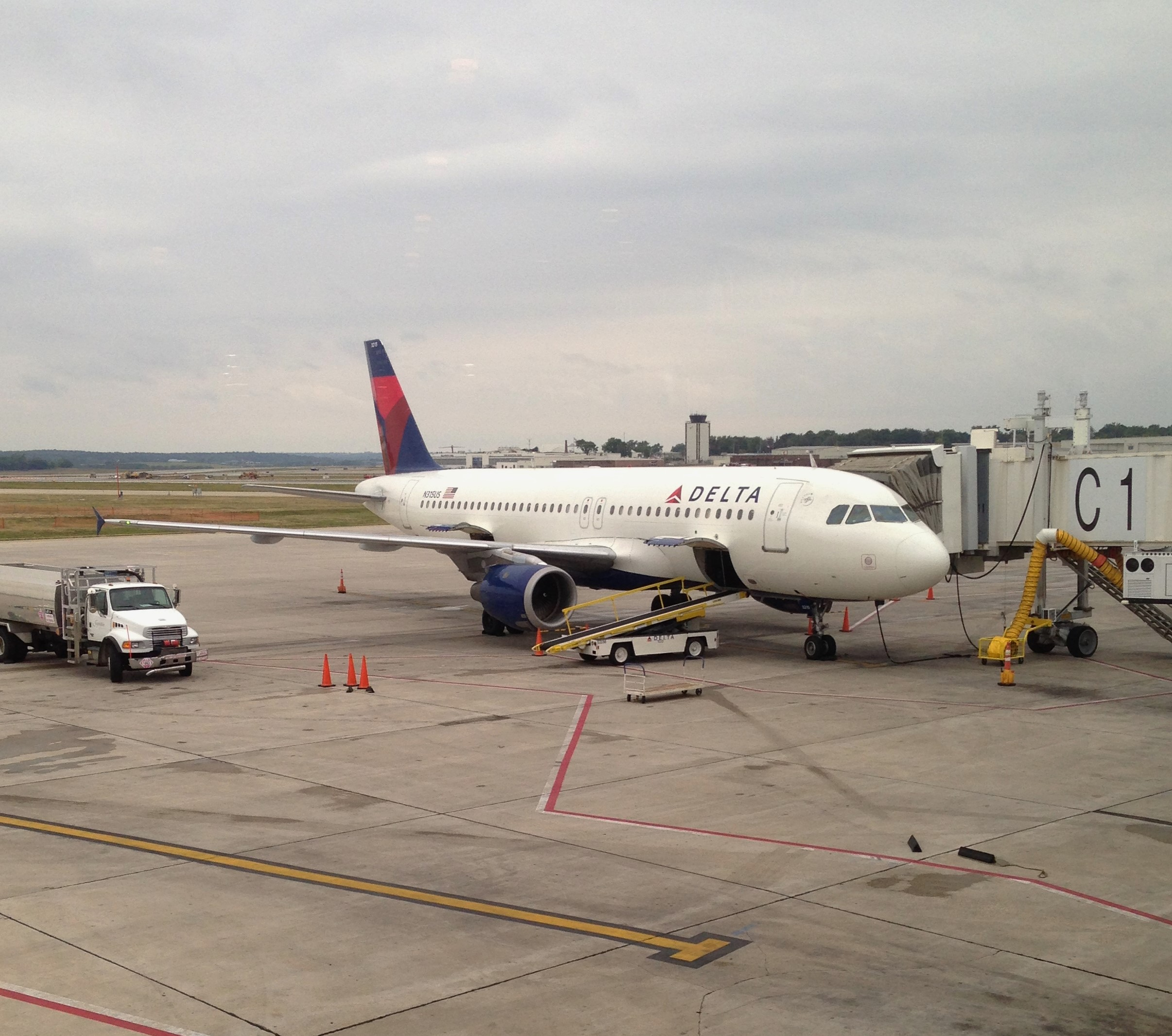 Delta Air Lines A320 parked at gate C1